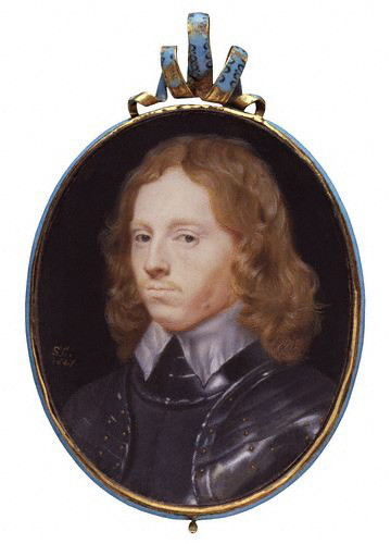 George Fleetwood (1623-c1672)